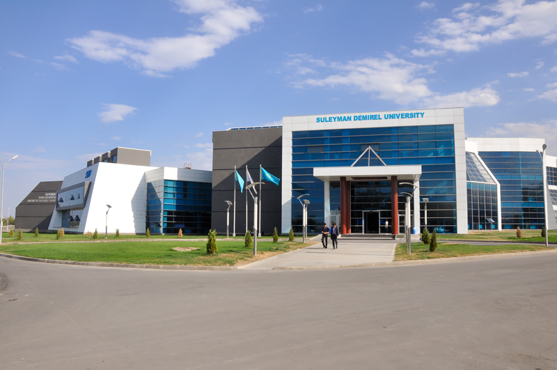 Suleyman Demirel University started utilizing its brand new "Smart campus" from 2011-2012 academic year.